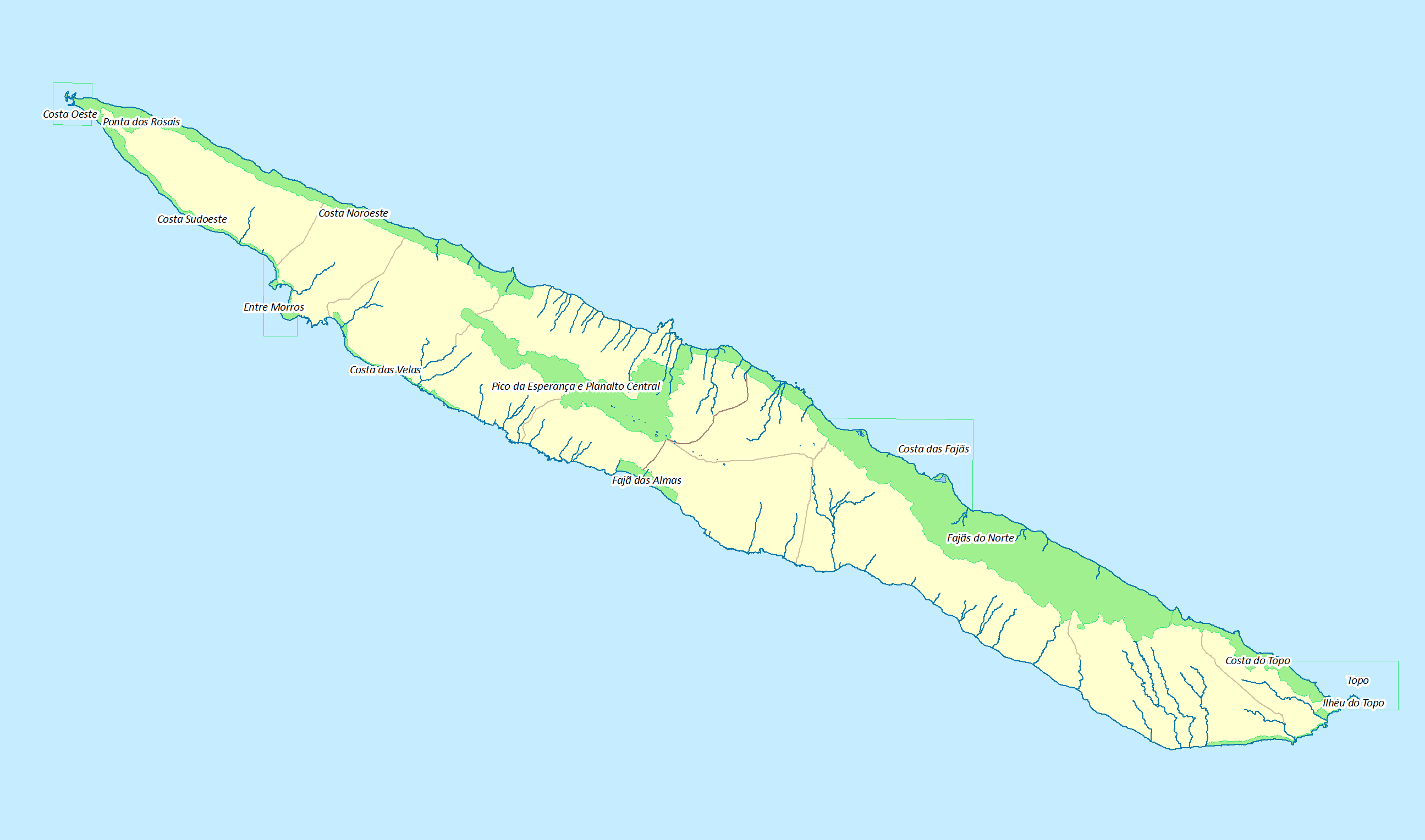 Location of the various protected areas of the São Jorge Nature Park